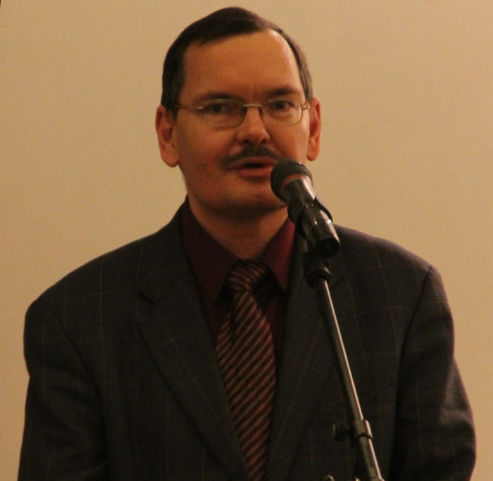 Estonian chess player Jaan Ehlvest on the 95th birthday of Paul Keres in Tallinn, Estonia.